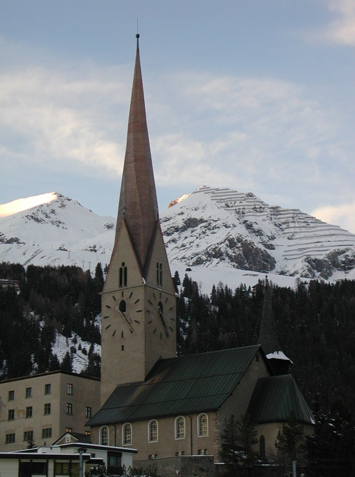 The Church of Davos "St. Johann", one of the landmarks. Behind the "Schiahorn"